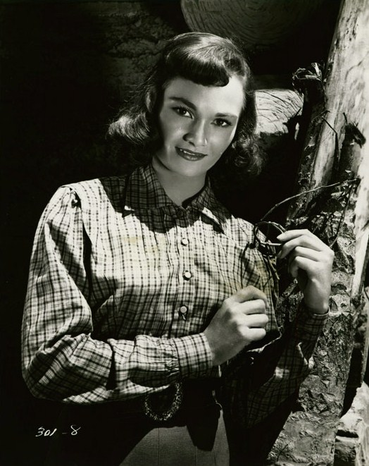 Gloria Talbott in Northern Patrol (1953) - publicity still (cropped : see source).